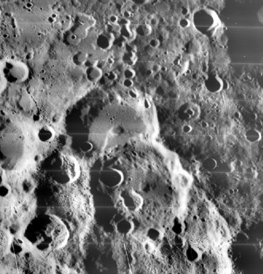 Lunar Orbiter mosaic image